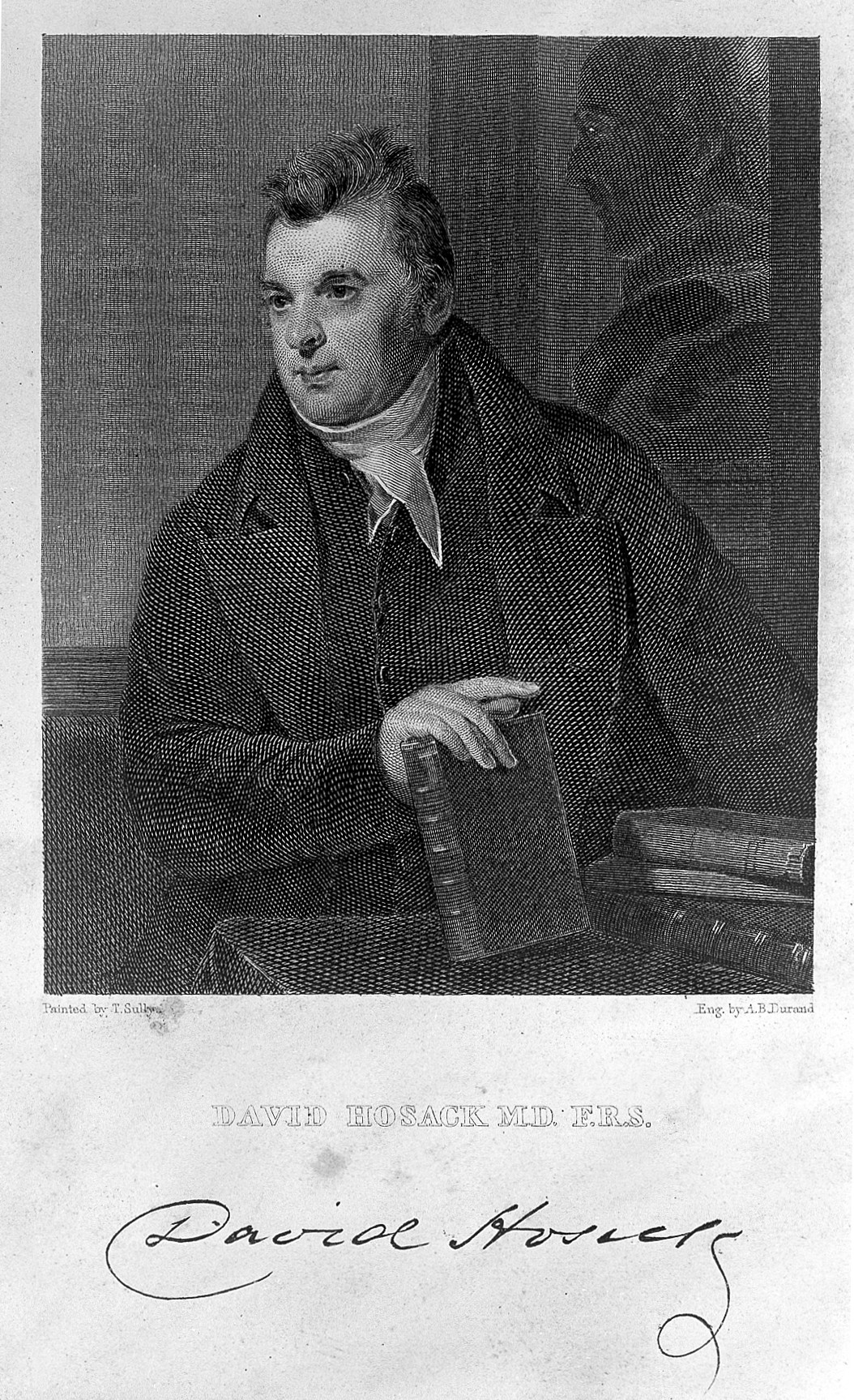 David Hosack. Line engraving by A. B. Durand, 1835, after T. Sully. Iconographic Collections Keywords: David Hosack